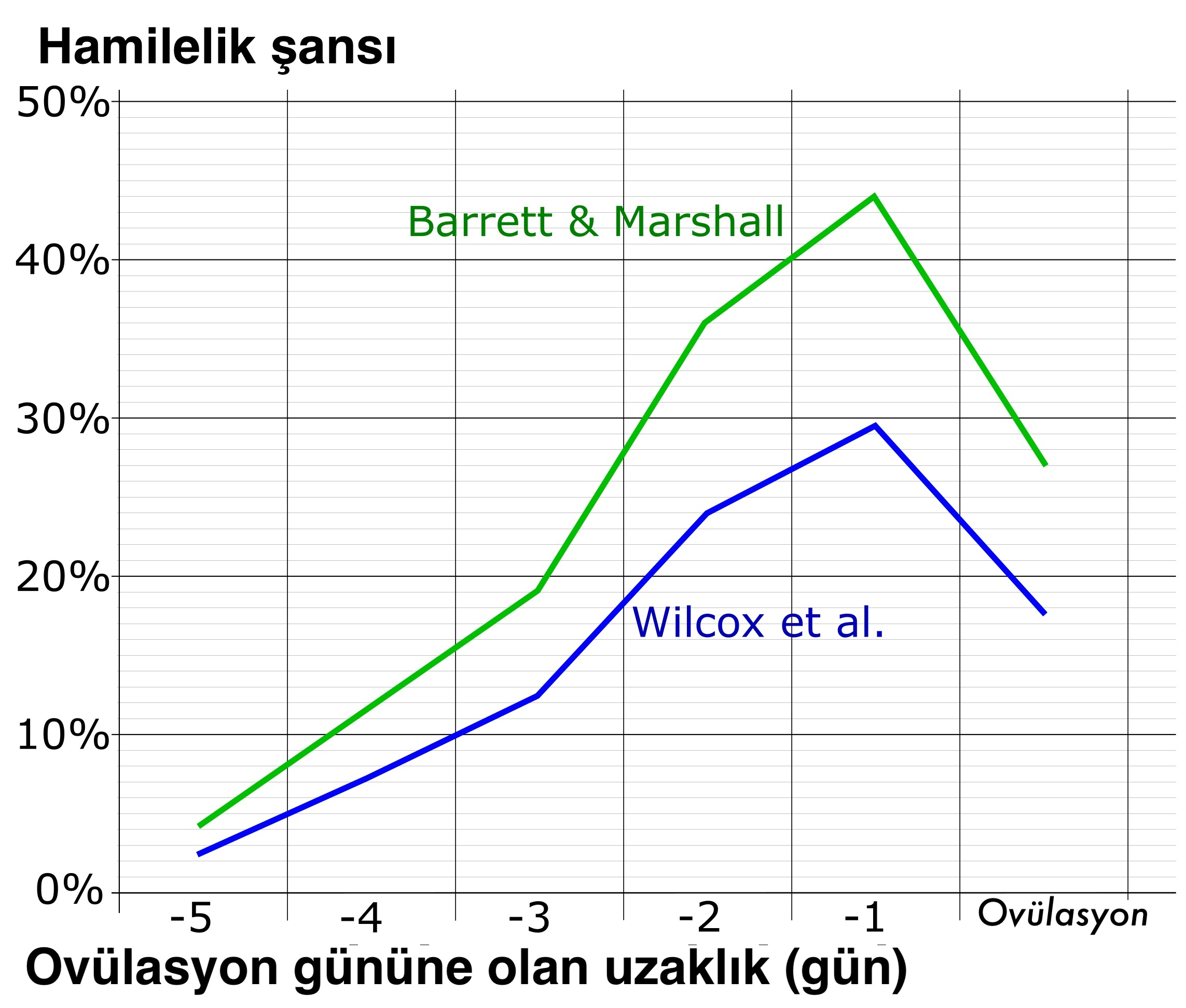 Pregnancy chance by day near ovulation